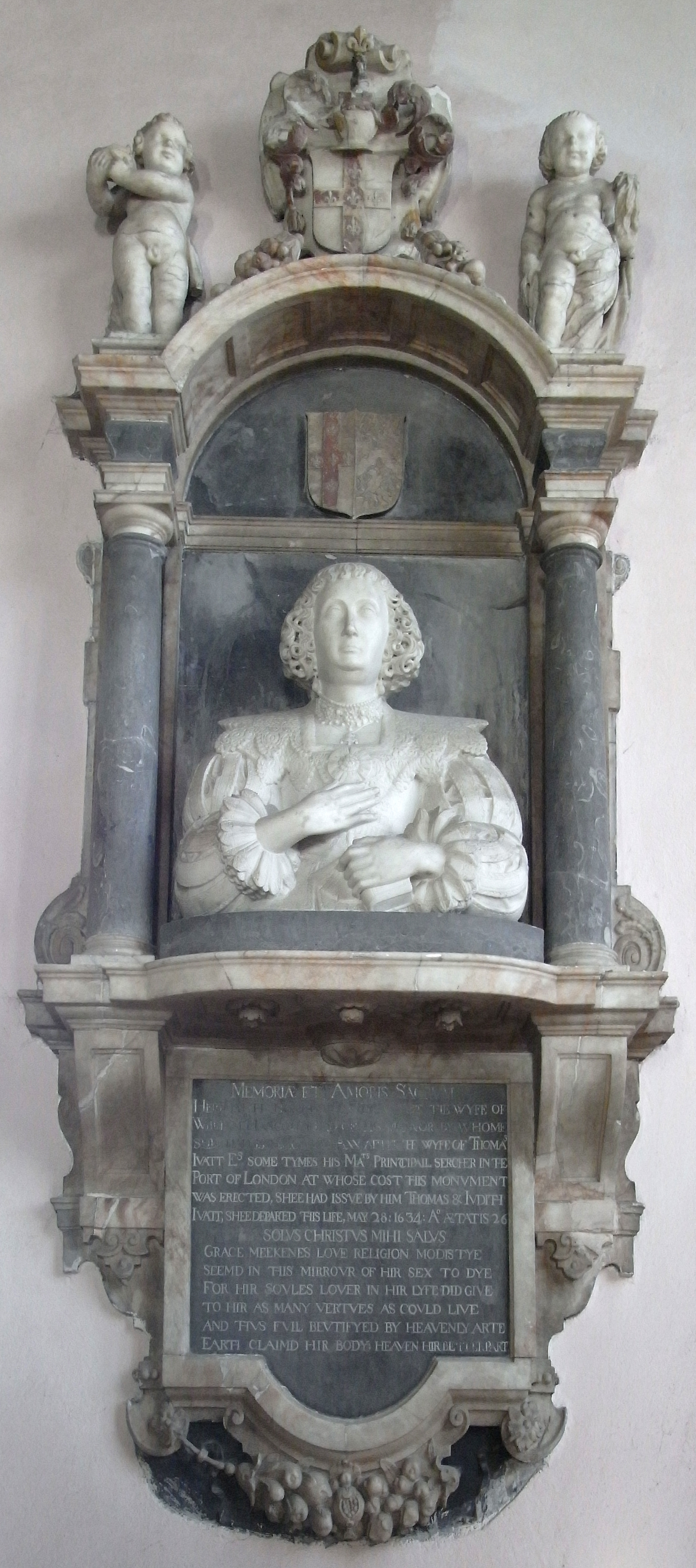 Mural monumment to Judith Newman, firstly wife of William Hancock, secondly of Thomas Ivatt, Combe Martin Church, Devon. Inscription: "Memoriae Amoris Sacrum. (Sacred to the memory of Love) Here lyeth the body of Judith first the wyfe of William Hancock Lord of this mannor by whome she had issue John & Ann, after the wyfe of Thomas Ivatt Es(q) some tymes His Ma(jes)t's printcipail sercher in the Port of London at whose cost this monument was erected. Shee had issue by him Thomas & Judith Ivatt. Shee departed this life May 28 1634 A(nn)o Aetatis 26. (in the year of (her) age 26) Solus Christus mihi salus". (Christ alone is salvation to me) "Grace meekenes love religion modistye Seem'd in this mirrour of her sex to dye For hir soule's lover in hir lyfe did give To hir as many vertues as could live And thus full beutifyed by heavenly arte Earth claim'd hir body Heaven hir better parte"